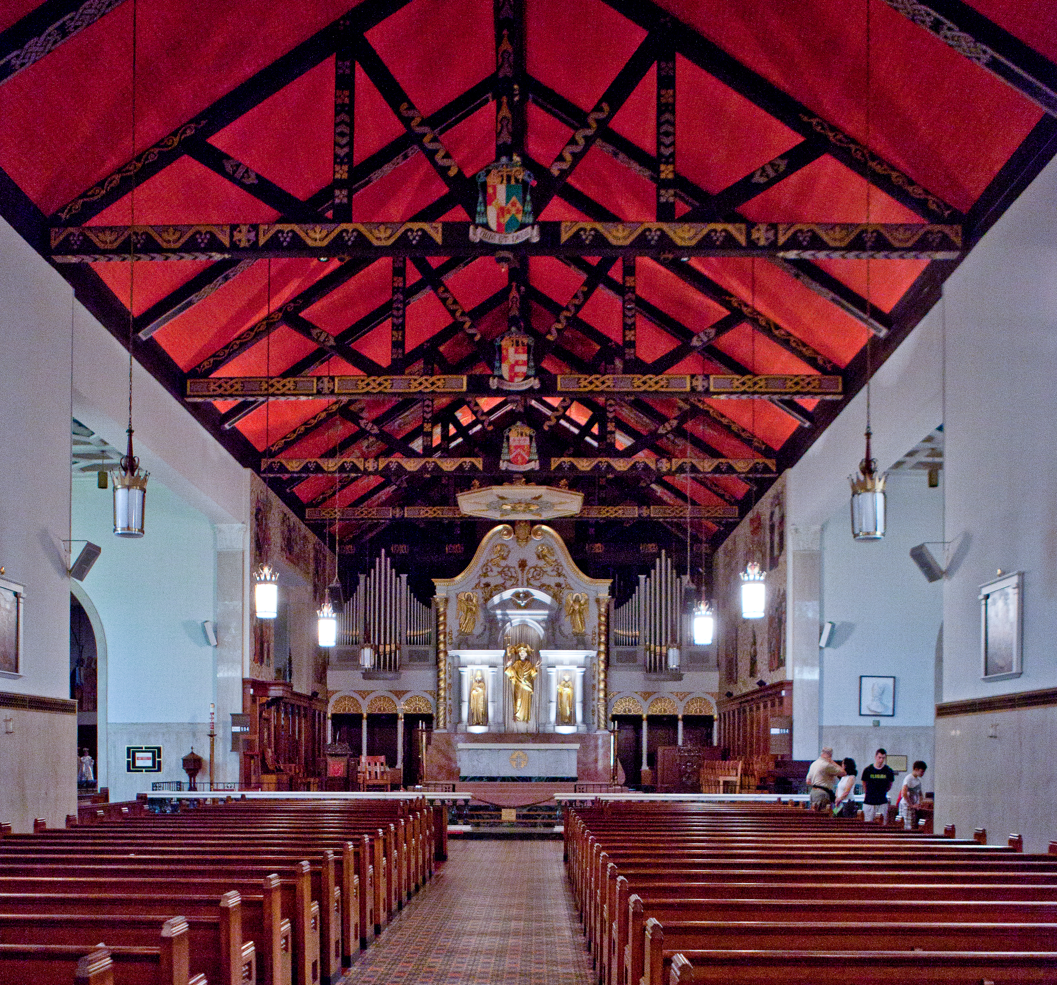 Interior of Cathedral Basilica of St. Augustine, Florida